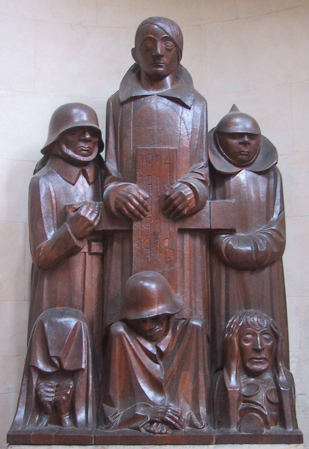 Magdeburger Ehrenmal (Magdeburg cenotaph) from Ernst Barlach, 1929. The sculpture created a great controversy about Barlachs anti-war stance, in opposition to the trends at that time. This is currently in the Cathedral of Magdeburg.